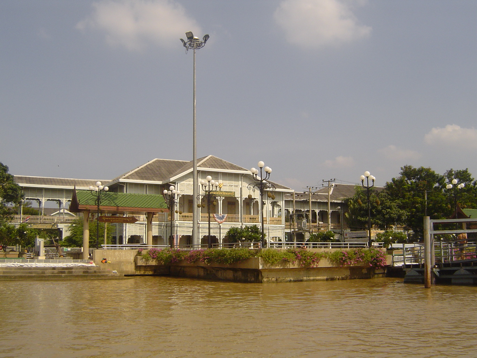 Old Nonthaburi townhall